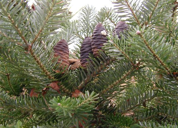 Abies koreana: Cones and needles. Denmark.